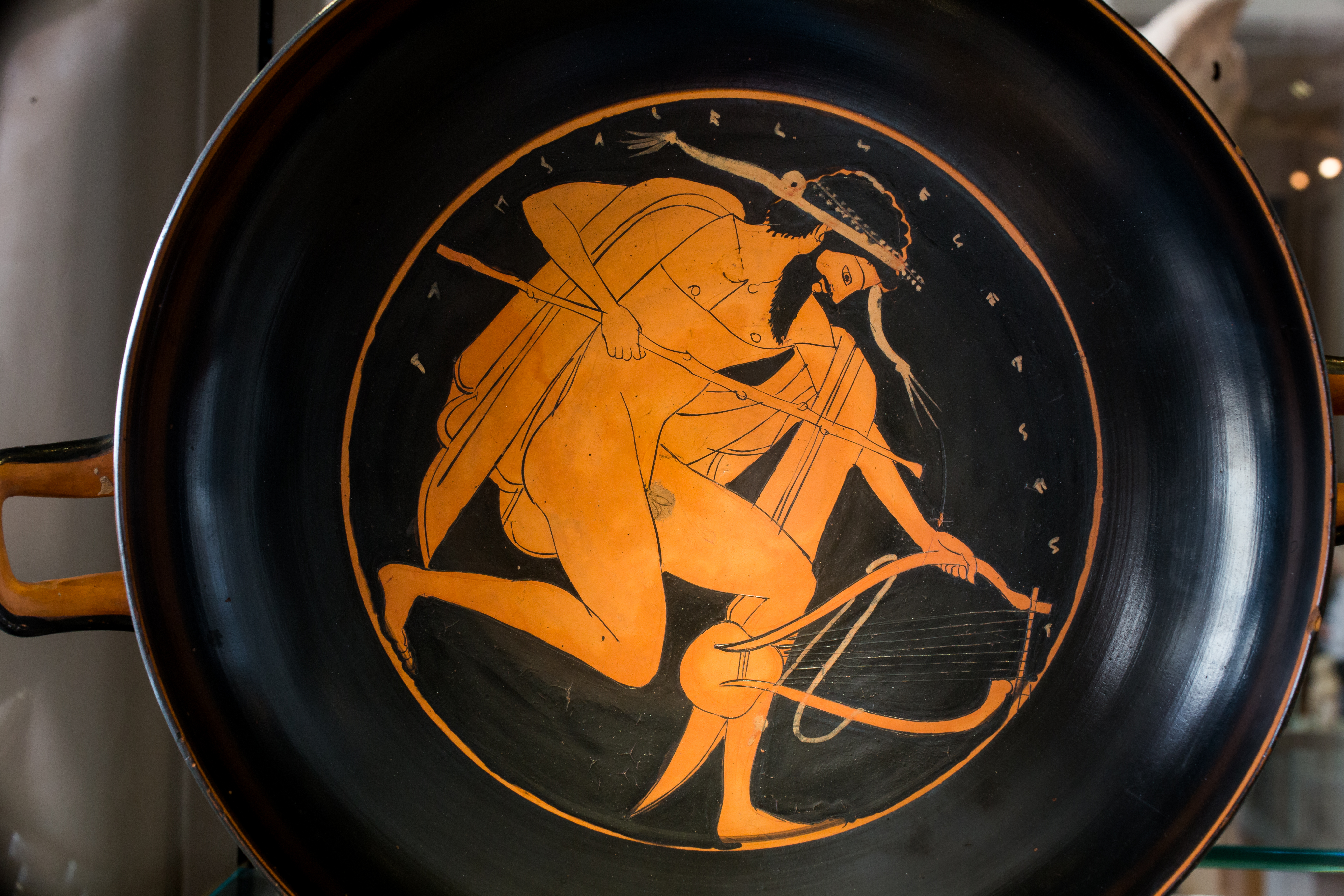 object type / vase shape: attic red figure cup (kylix) - description interior: bearded man with lyra and staff at the komos - exterior side A: symposion - side B: hoplites fighting - production place: Athens - painter: wider circle of the Nikosthenes Painter - period / date: late archaic, ca. 500-490 BC - material: pottery (clay) - height: 11 cm - museum / inventory number: Cambridge, Fitzwilliam Museum GR.19.1937 - bibliography: John D. Beazley, Attic Red-Figure Vase-Painters, Oxford 1963(2), 135, 13 - Please note: The above museum permits photography of its exhibits for private, educational, scientific, non-commercial purposes. If you intend to use the photo for any commercial aime, please contact the museum and ask for permission.